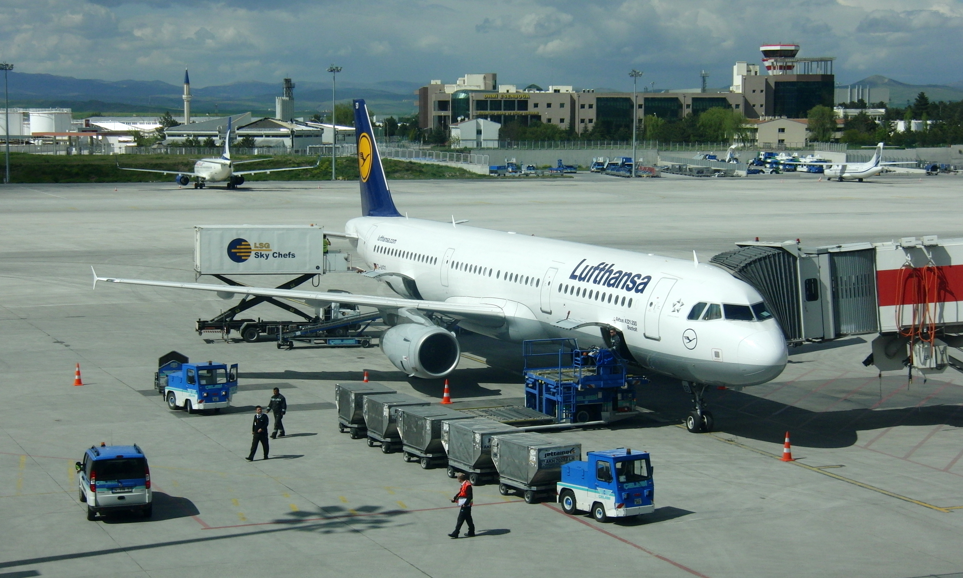 Lufthansa plane parked at Esenboğa Havalimanı, Ankara, Turkey